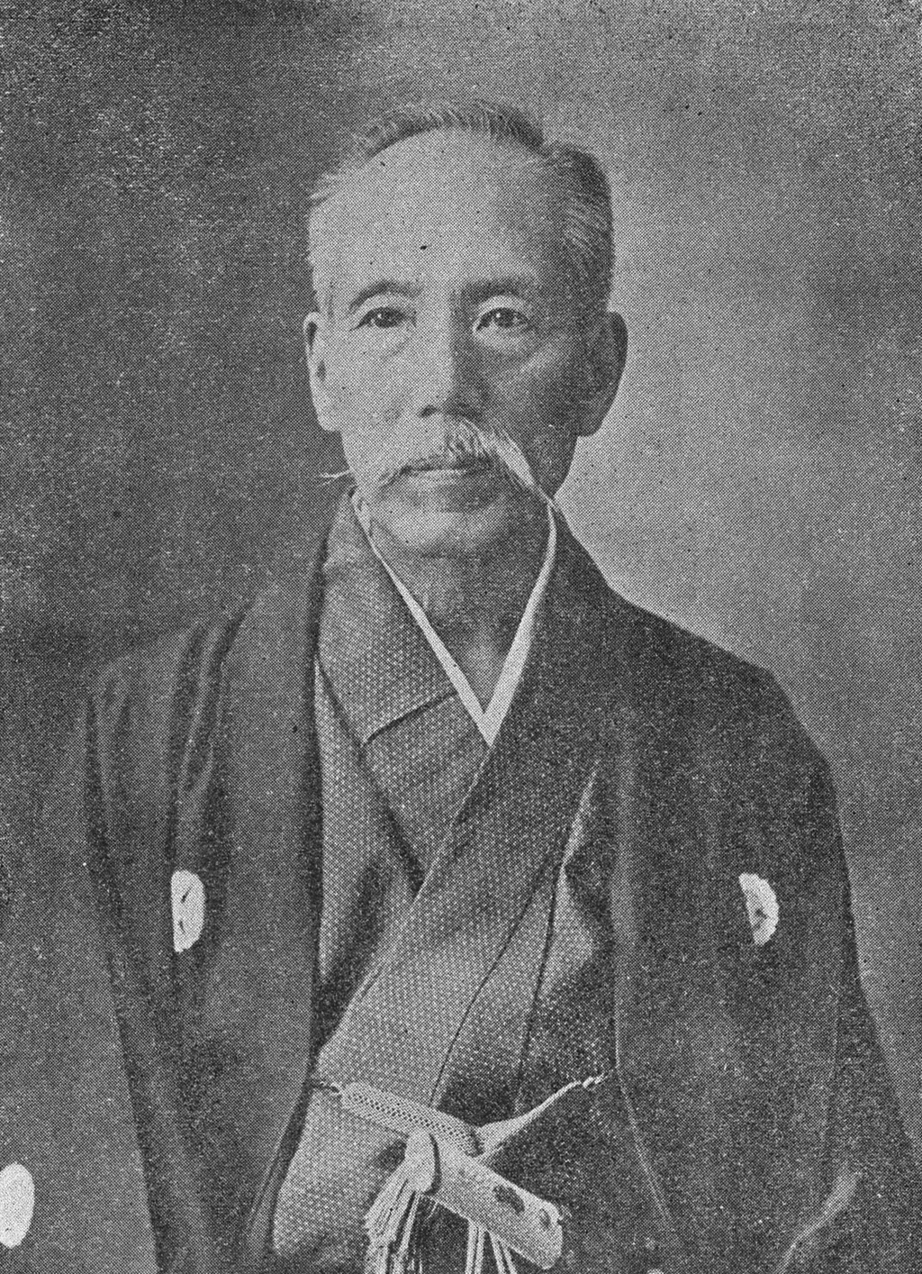 Portrait of Imamura Choga (今村長賀, 1837 – 1910)